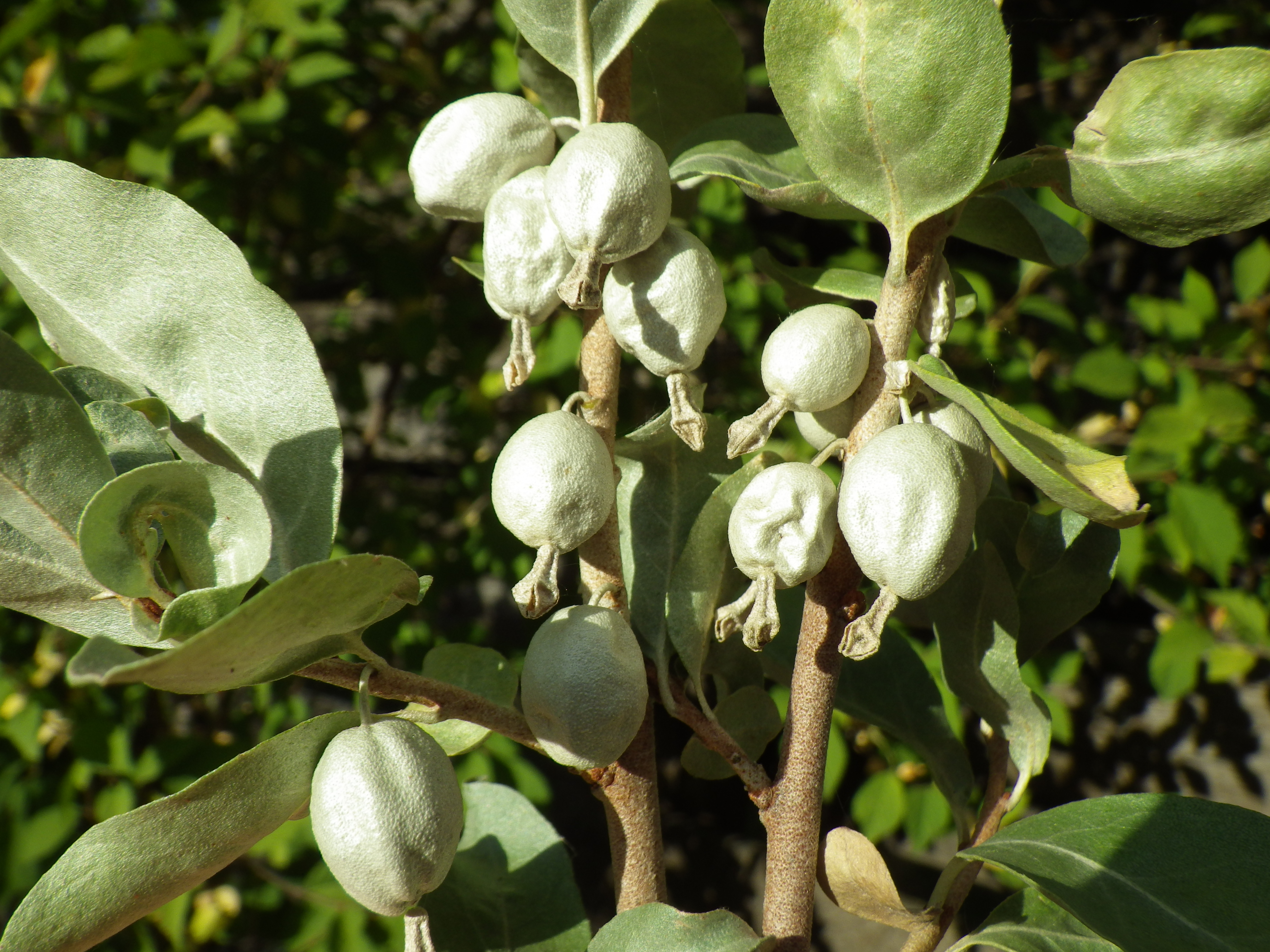 Elaeagnus commutata — growing beside the Gallatin River in Montana. The fruit is a drupe with a dry but thick mesocarp (middle layer). The corolla tube persists at the distal end of the late maturing fruit.